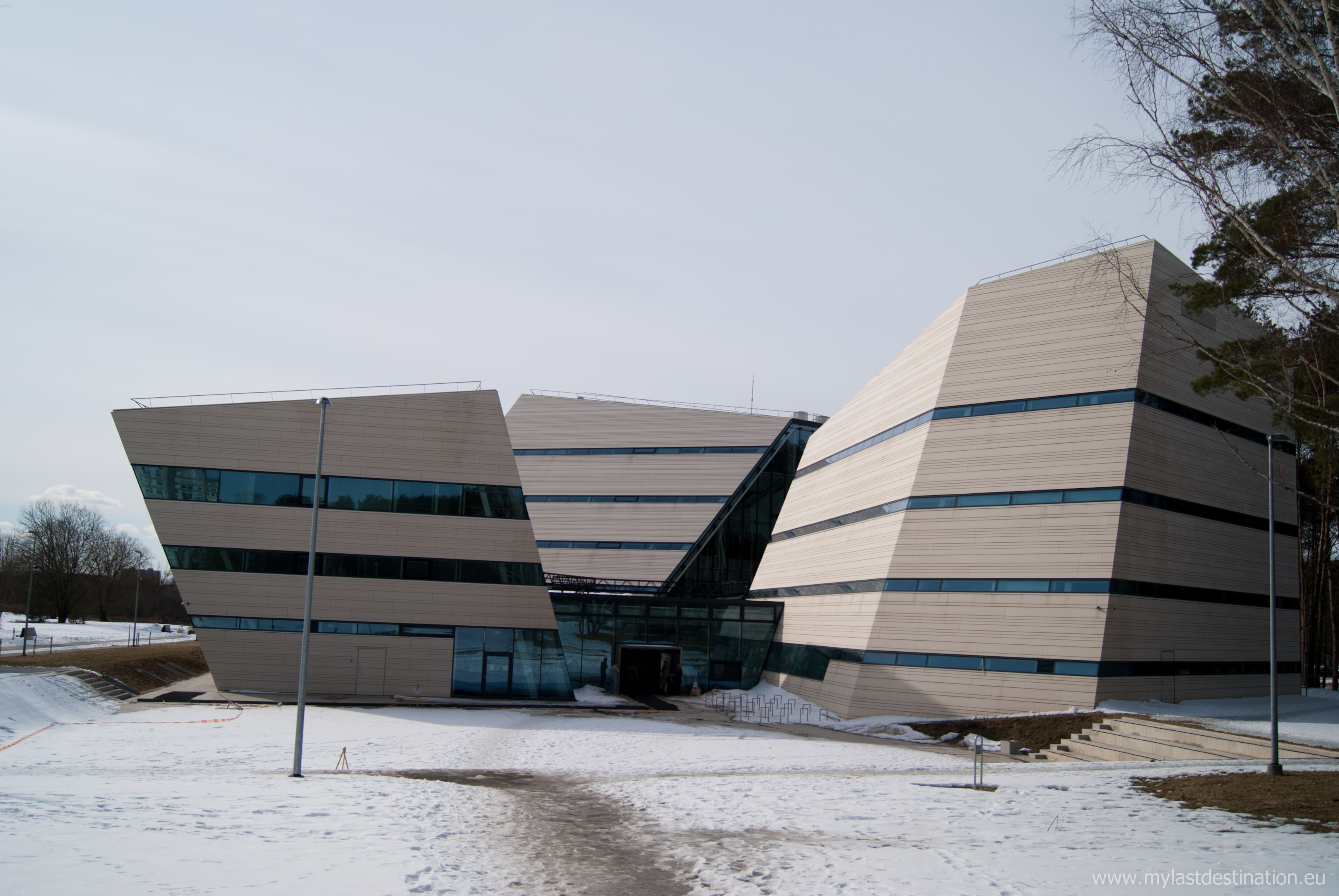 New Vilnius University library